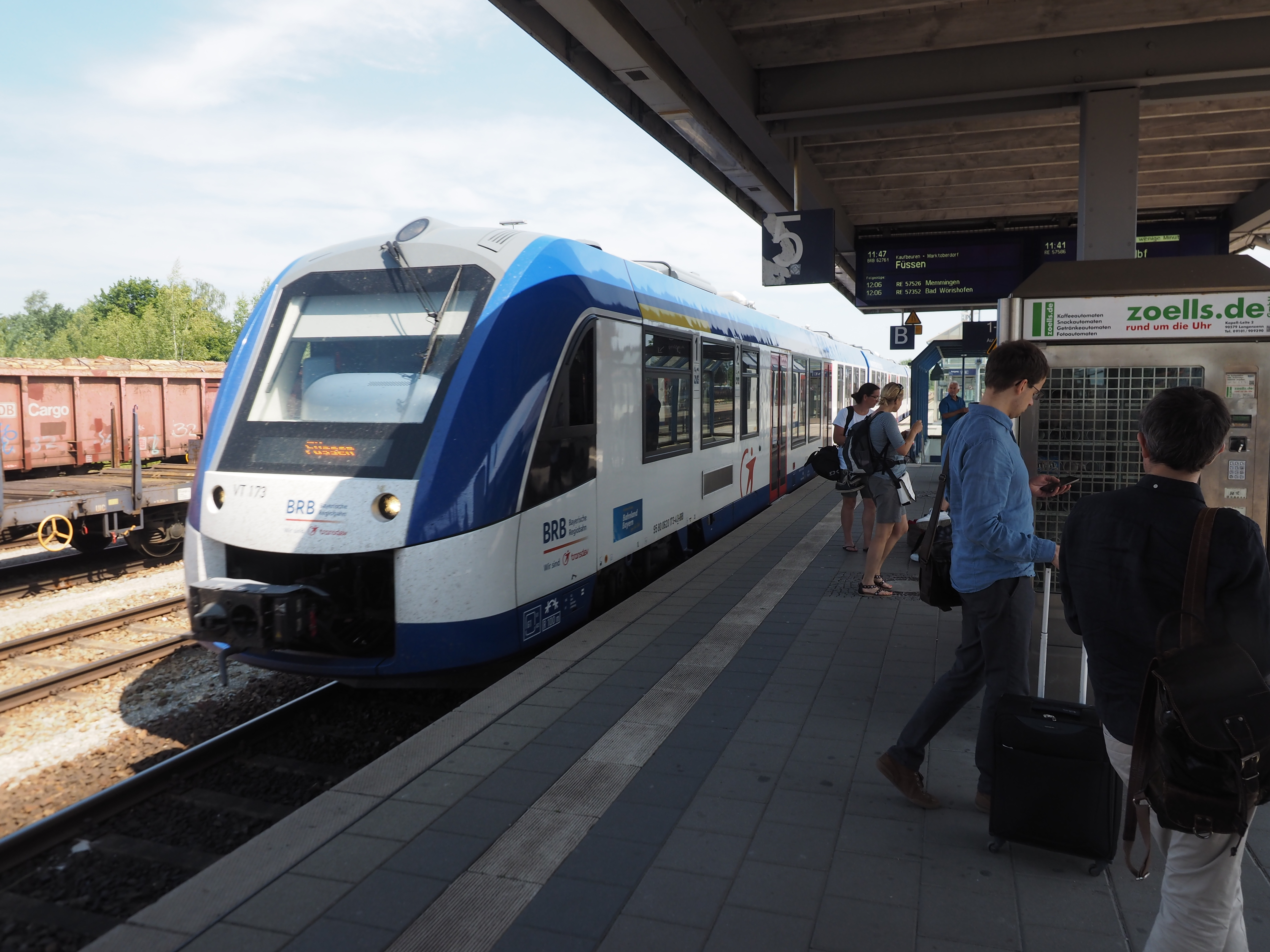 A train going to Füssen, Bavaria, Germany at the railway station in Buchloe, Bavaria, Germany.